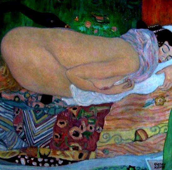 Greek mythological character Leda (from the story of Leda and the Swan).